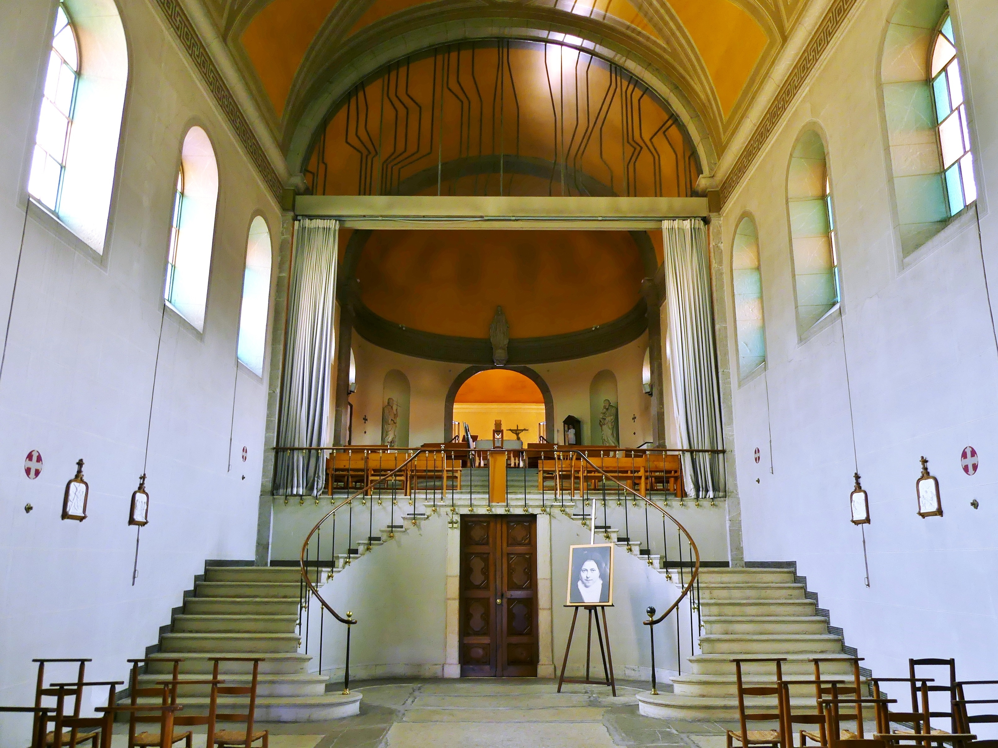 Sight, from from the nave, of the raised choir of the Carmel monastery church of Chambéry, in Savoie, France.